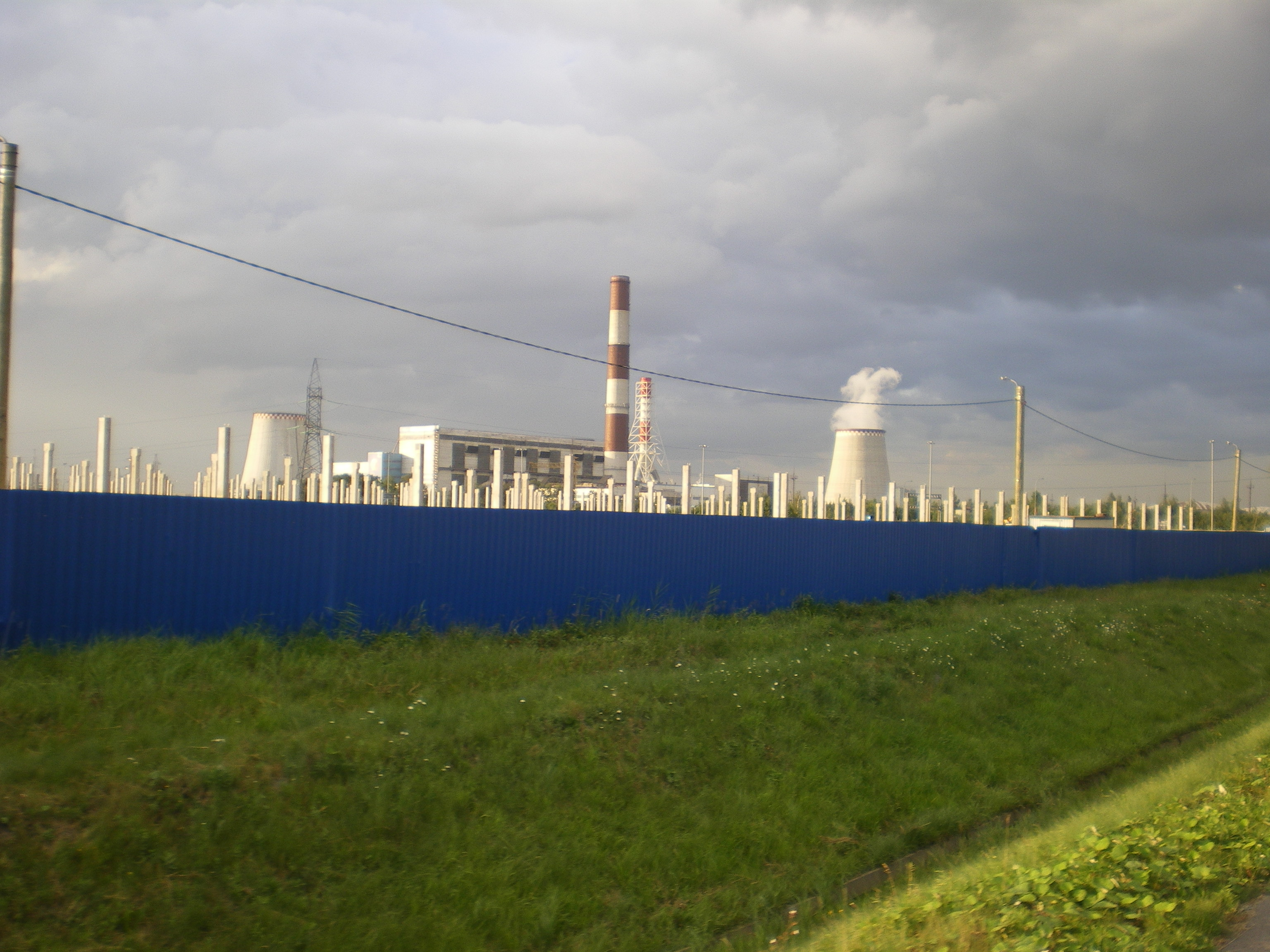 Shushary depot construction